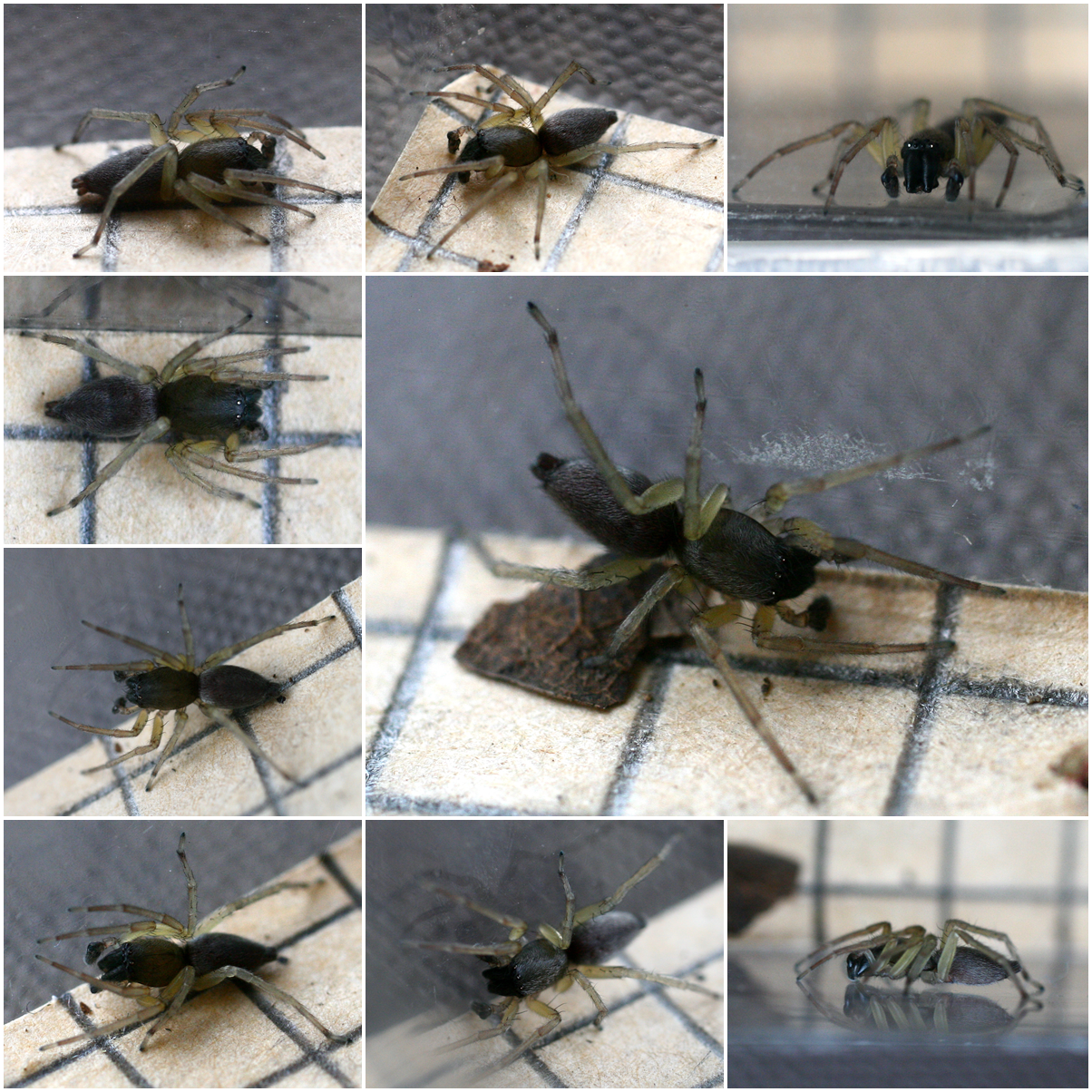 Clubiona brevipes (Clubionidae). Male caught in April with an ichneumon larva clinging on - happily he survived the operation to remove it and moulted to maturity yesterday (moulting within his normal silk retreat, not dangling from a thread like most spiders I've seen moult). 20th May 2012, Bricket Wood Common, Hertfordshire, England.